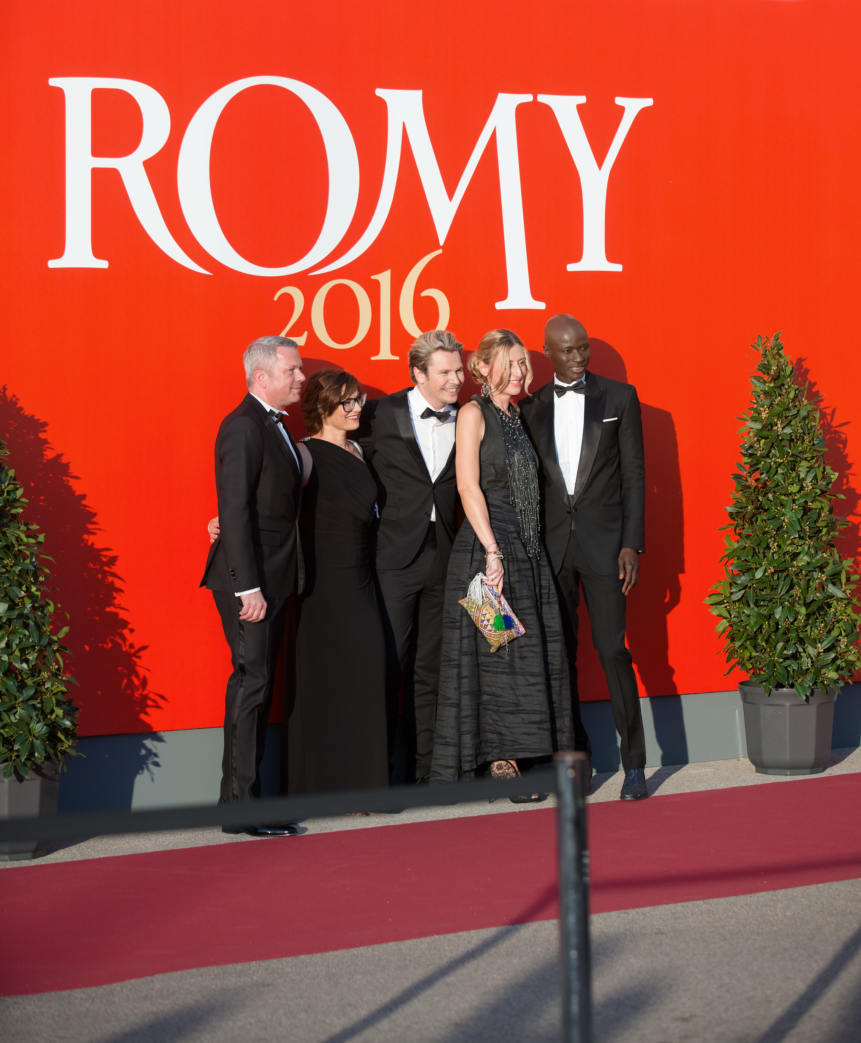 Adi Weiss (center), Papis Loveday (r.) and company on the red carpet of the Romy TV awards 2016 at Hofburg Palace in Vienna, Austria.